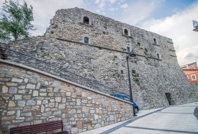 Guevara Castle in Savignano Irpino, Italy